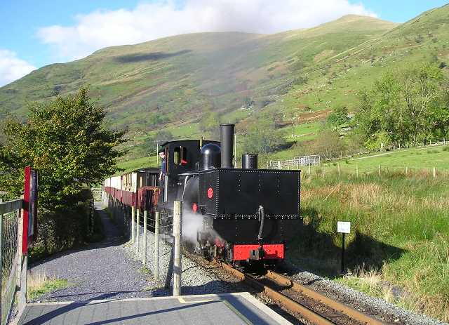 K1, The first Garratt locomotive to be built, preserved in use on the Welsh Highland Railway, on passenger train entering Snowdon Ranger railway station on 19 October 2007.